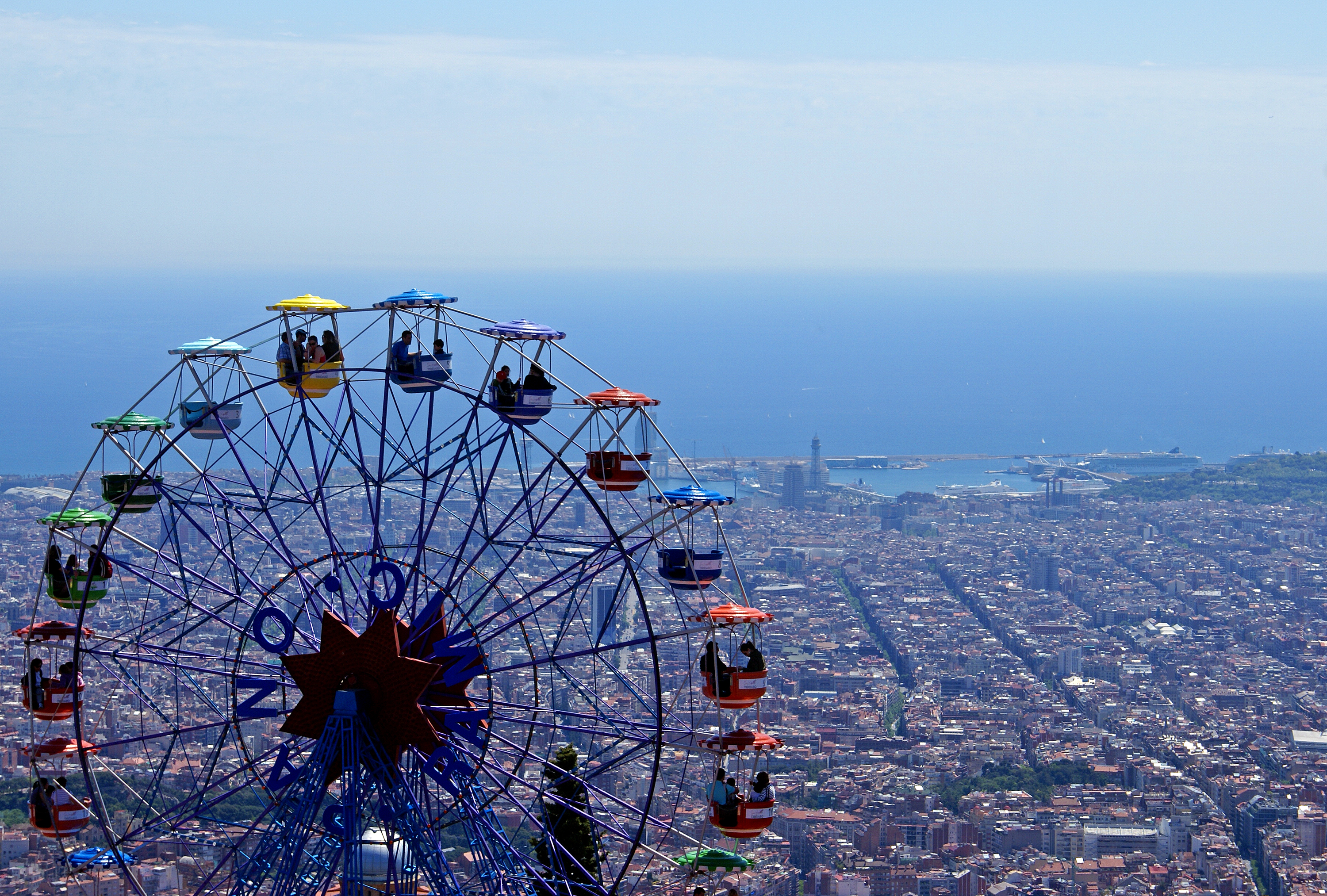 View from Tibidabo